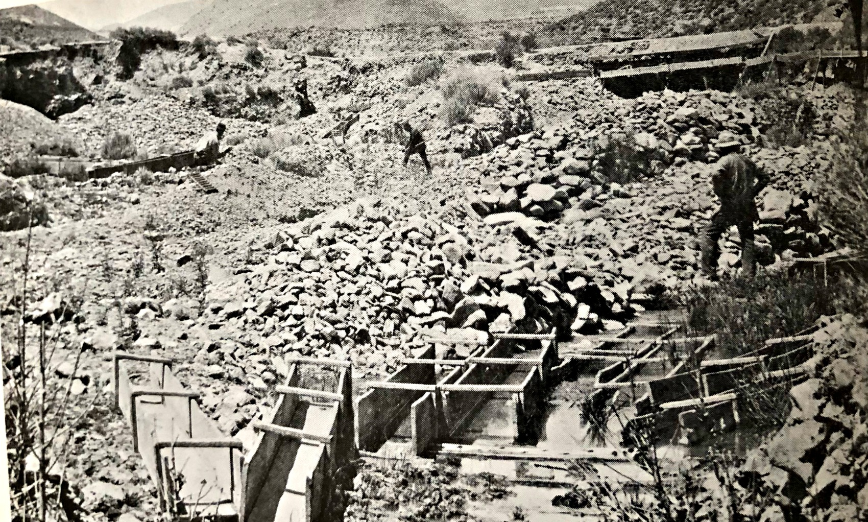 Placer mining, 1880s, in Gold Canyon. The original site of Johntown mining settlement , south of Silver, City Nevada